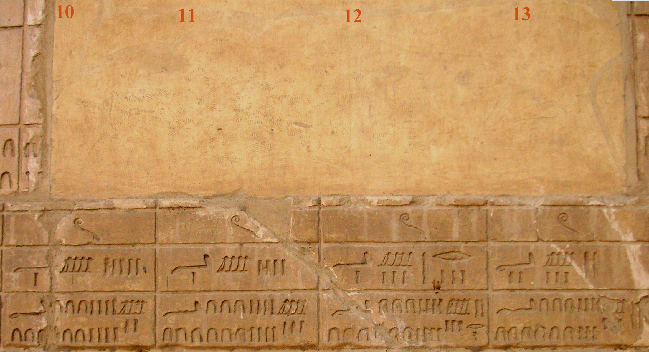 Nome 10 to 13 of Lower Egypt (list of Sesostris I.) (information has been lost in essential parts)